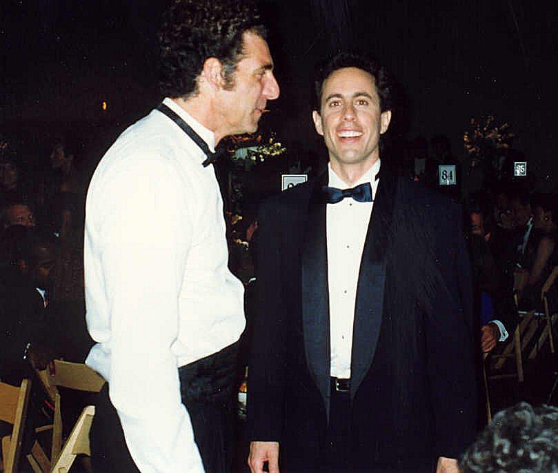 Michael Richards and Jerry Seinfeld at the 44th Emmy Awards August, 1992